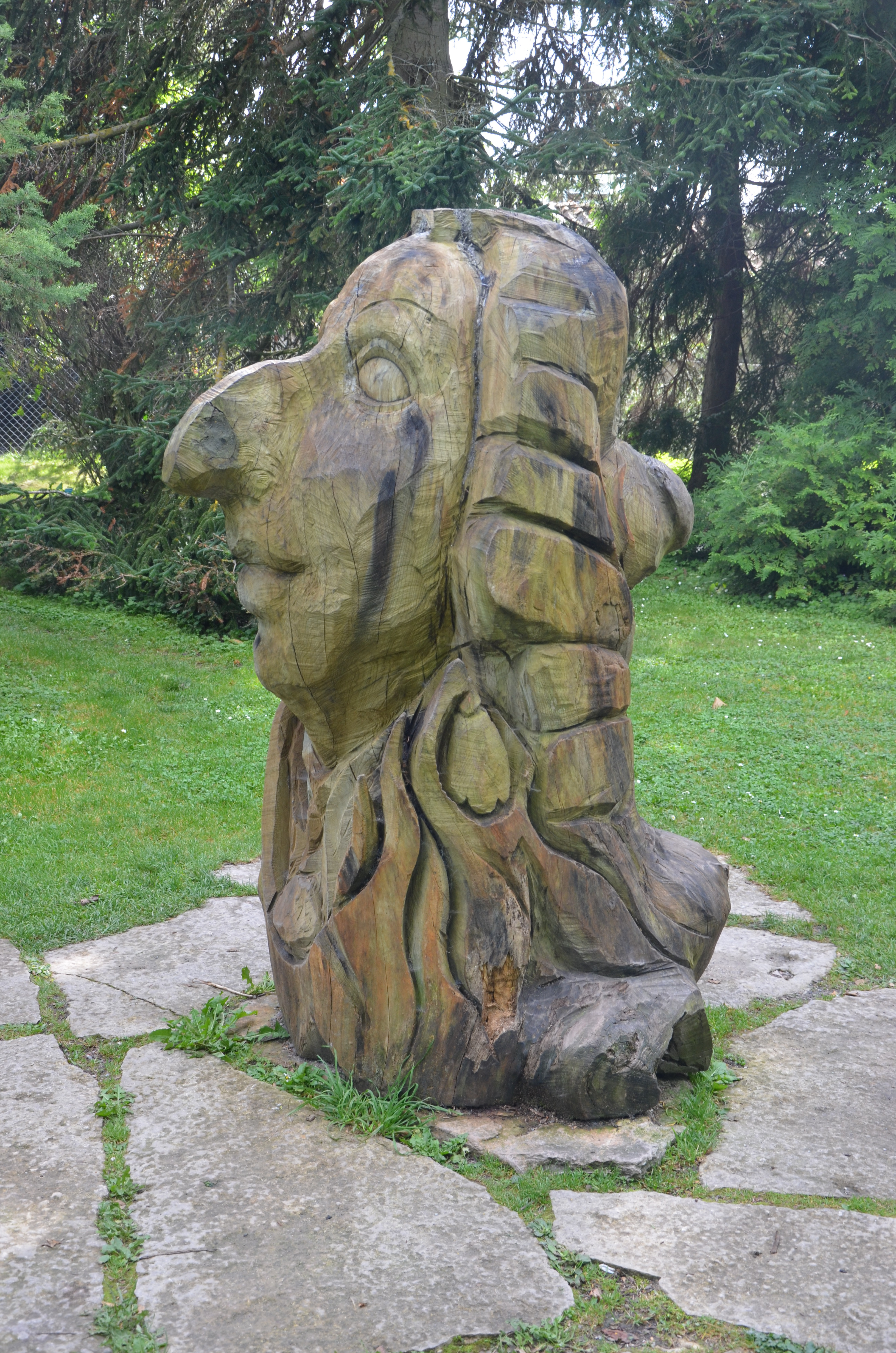 Kaj Engströms Linneus, trä, 2007, De Badande Wännernas trädgård i Visby